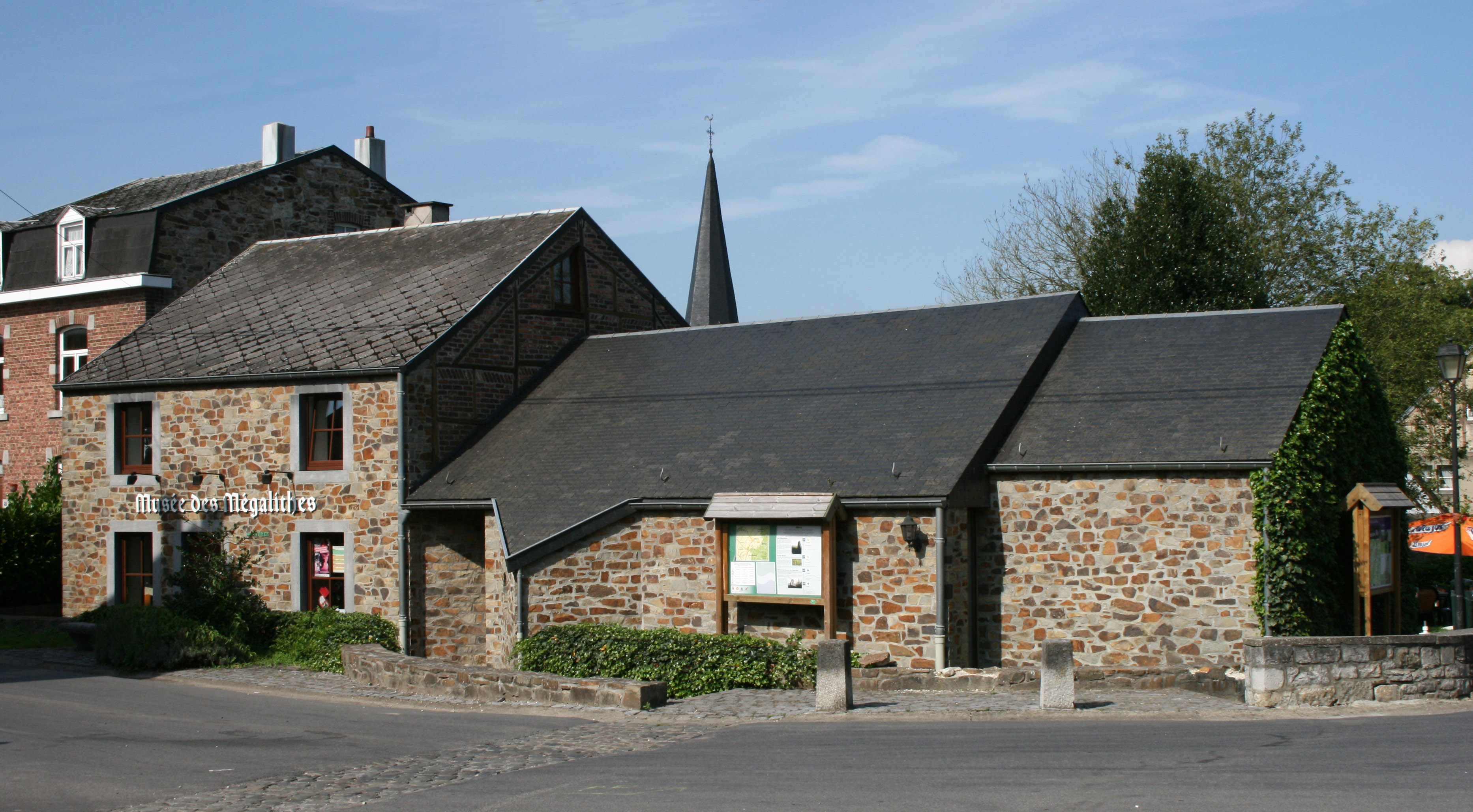 Megaliths Museum of Weris (Belgium)